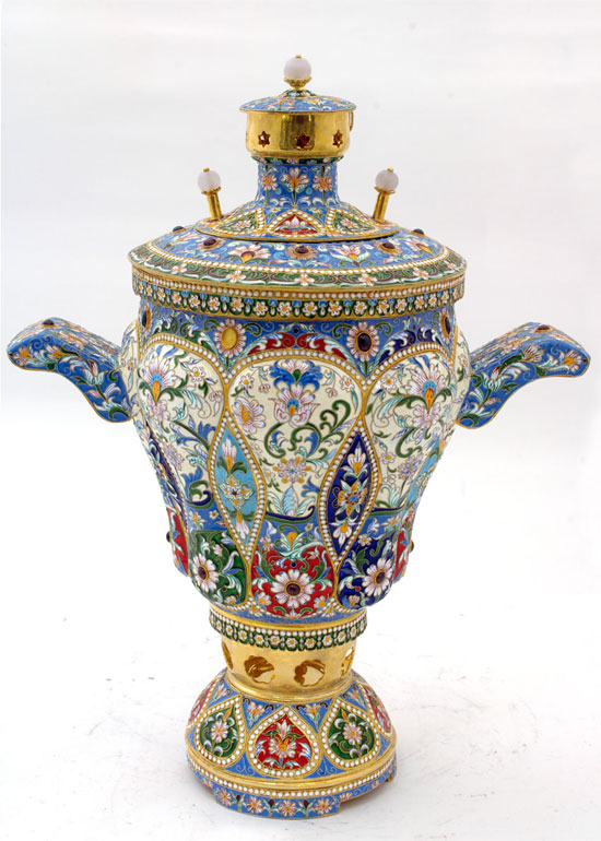 This Golden Samovar (tea maker) -made of Russian Silver & Emamel. fromimitry The Russian Silver & Enamel Collection